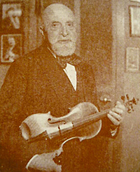 Violinist Leopold Auer in America ca. 1922